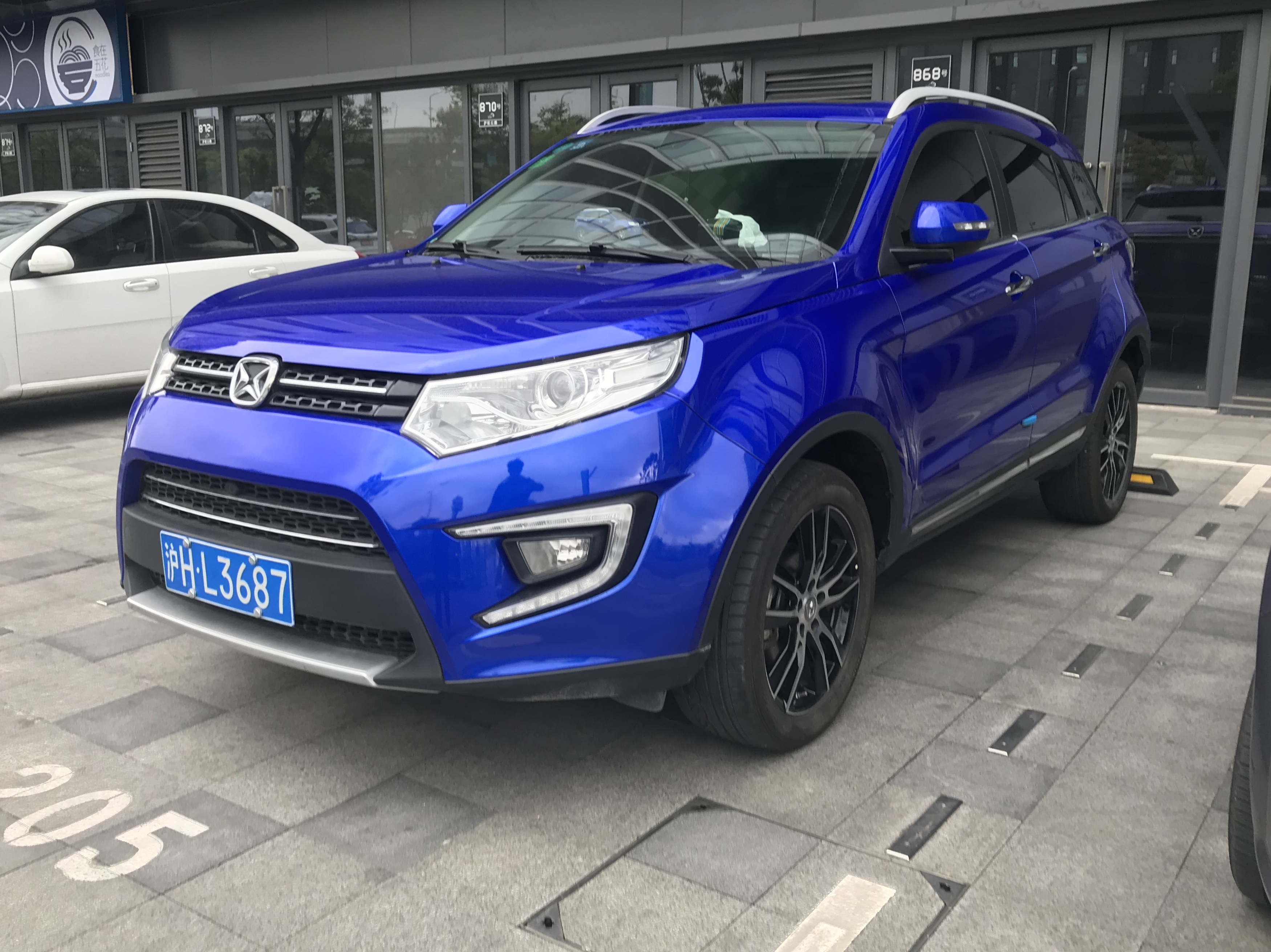 Yusheng S330